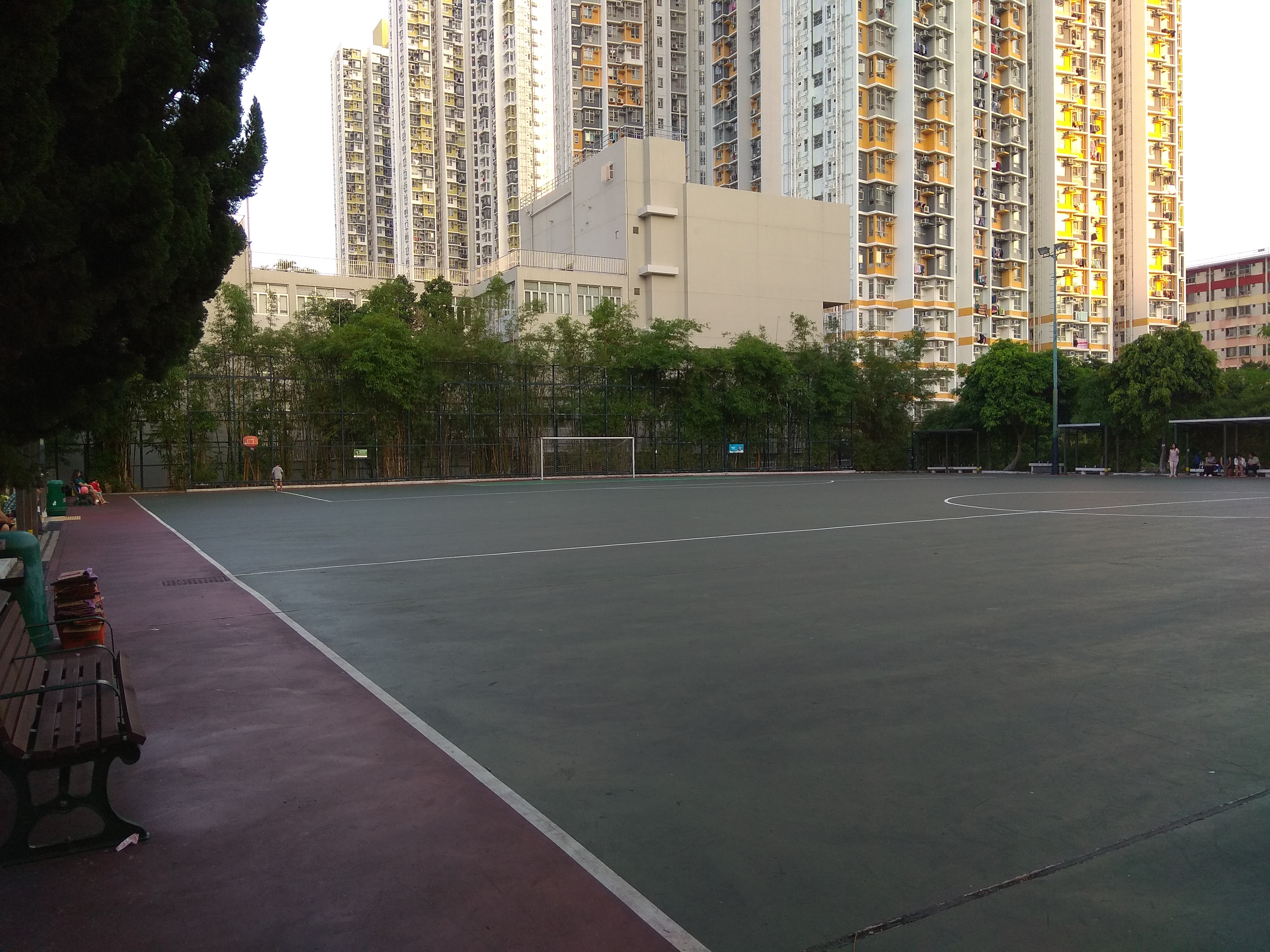 Wai Chi Street Playground